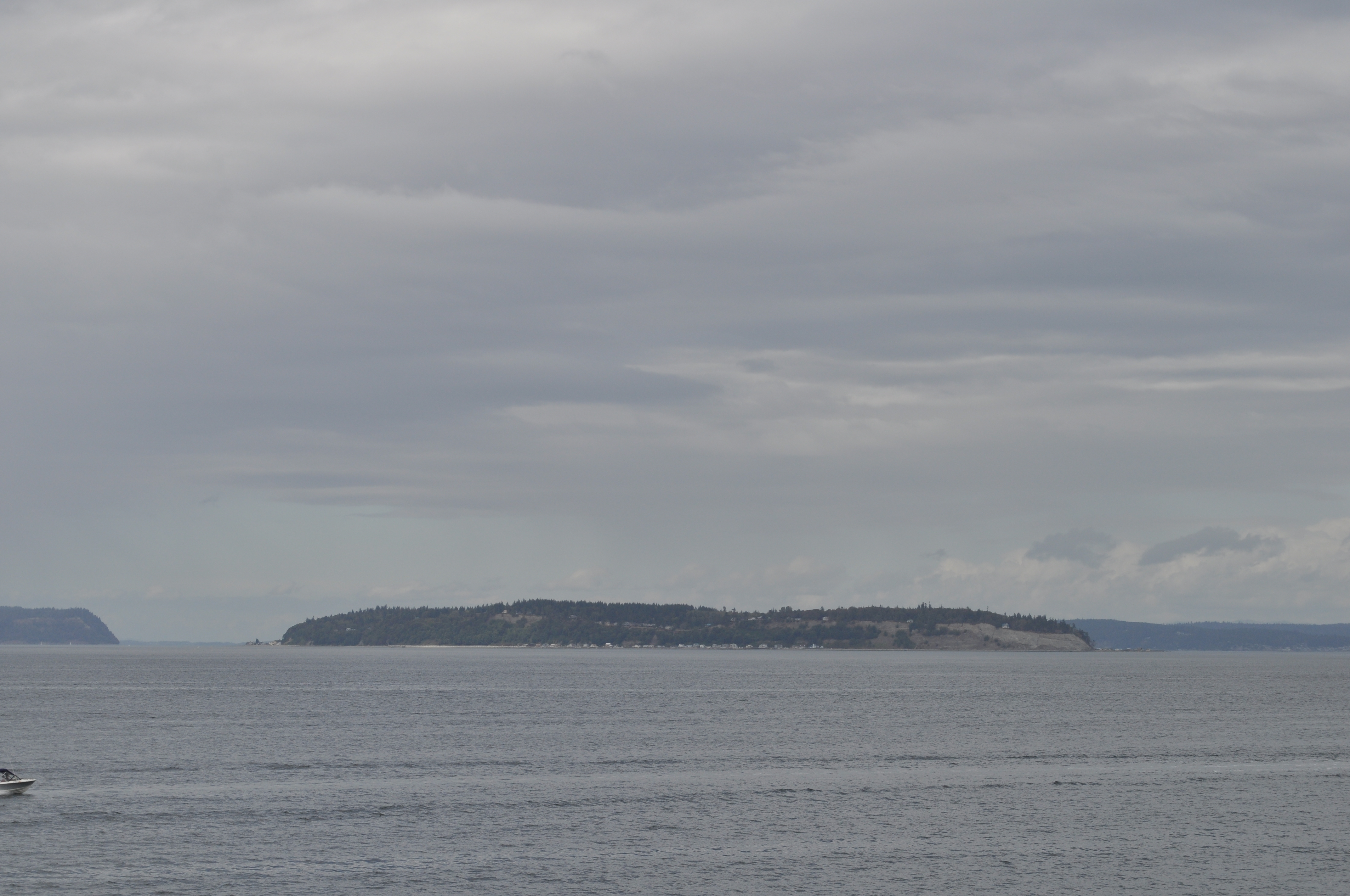 Hat Island (a.k.a. Gedney Island), Washington, seen from the Mukilteo Lighthouse, Mukilteo, Washington.